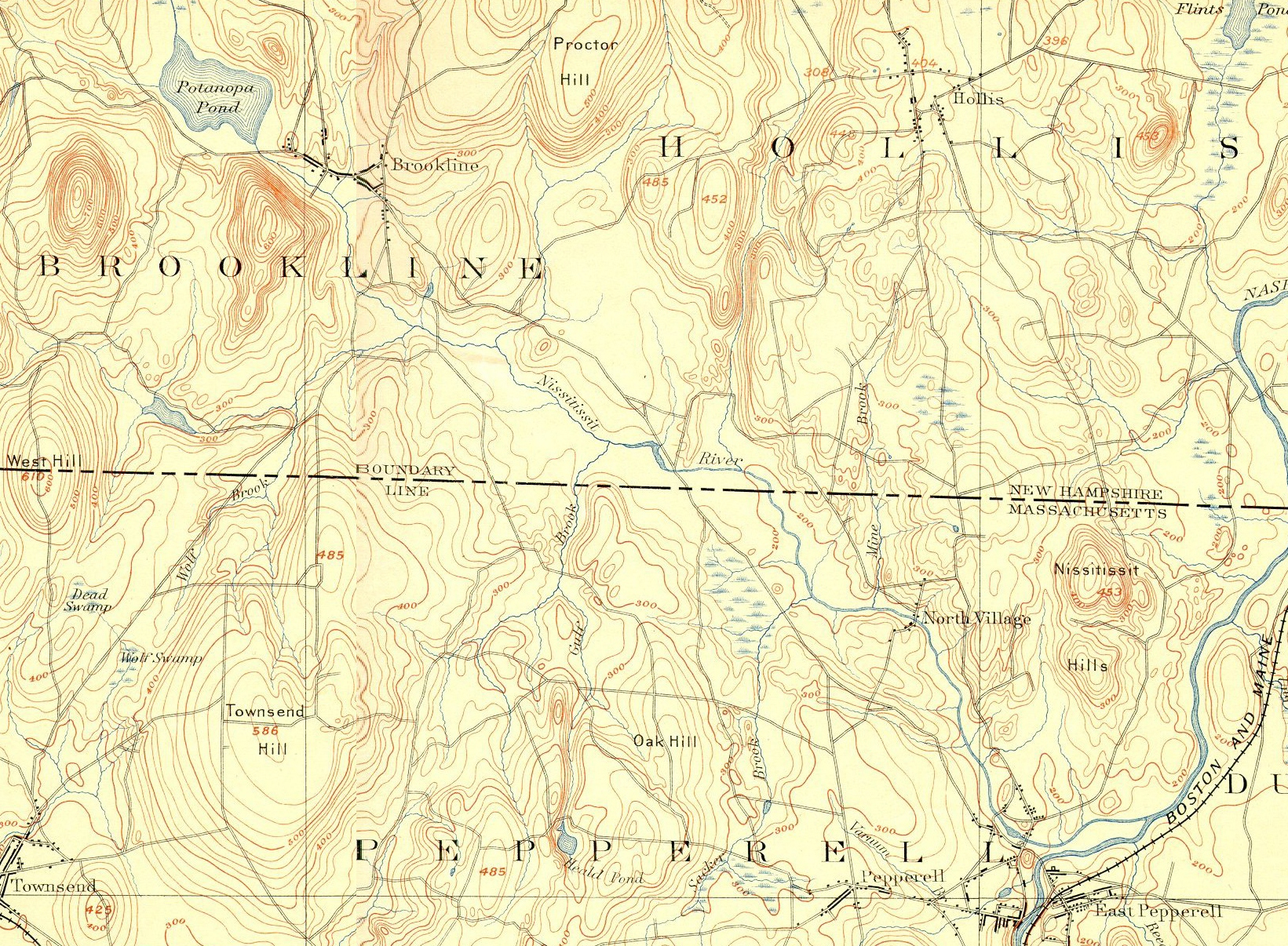 Map of Nissitissit River (New Hampshire + Massachusetts).